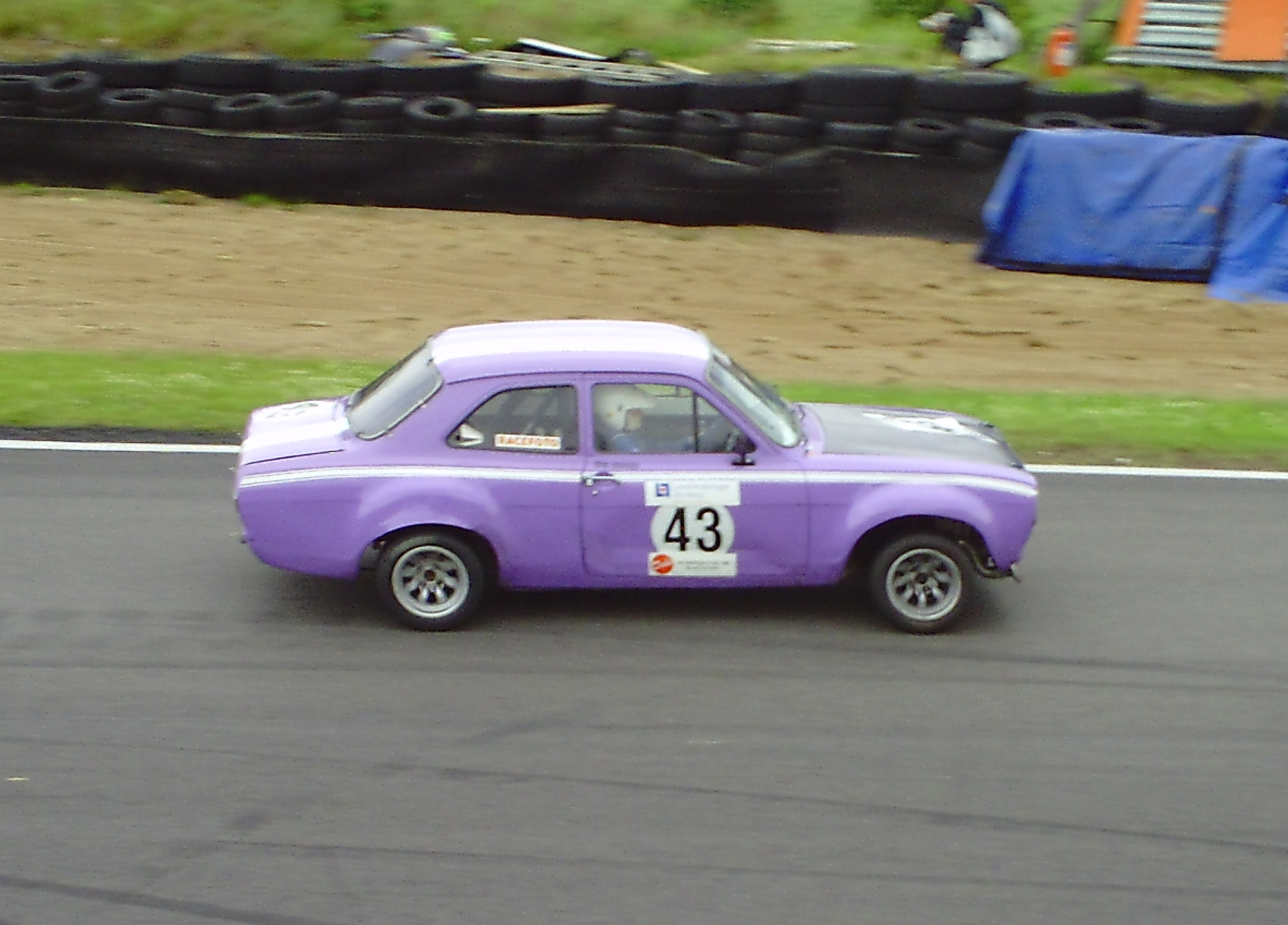 To celebrate Svenska Bilsportförbundet's 75 anniversary, a historic race was held at Falkenbergs Motorbana. Here is the racing driver Erik Berger , still competing at an age of 85, in his purple Ford Escort.